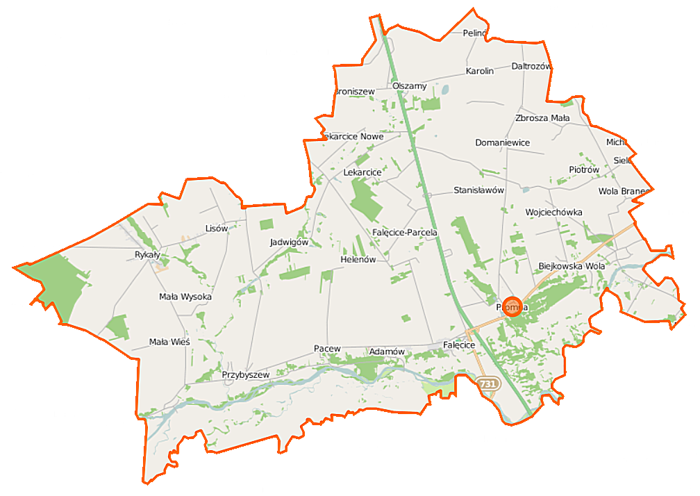 Map of Gmina Promna, Poland This map of Promna (gmina) was created from OpenStreetMap project data, collected by the community. This map may be incomplete, and may contain errors. Don't rely solely on it for navigation. Border coordinates51.755720.7576←↕→21.035051.6342